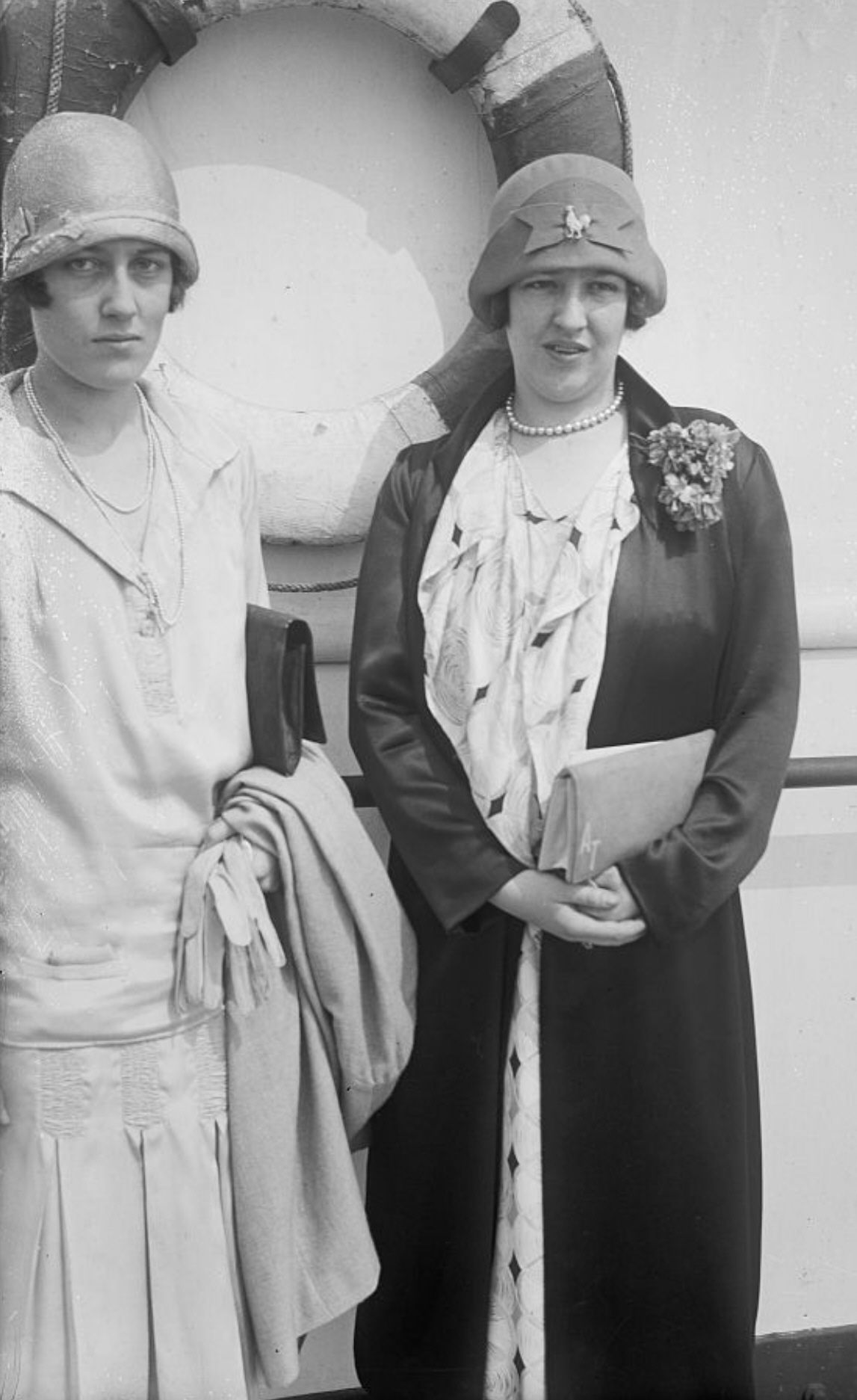 Alice Tully (right), 1902-1993, American opera singer. To the left her sister, Marion Tully.